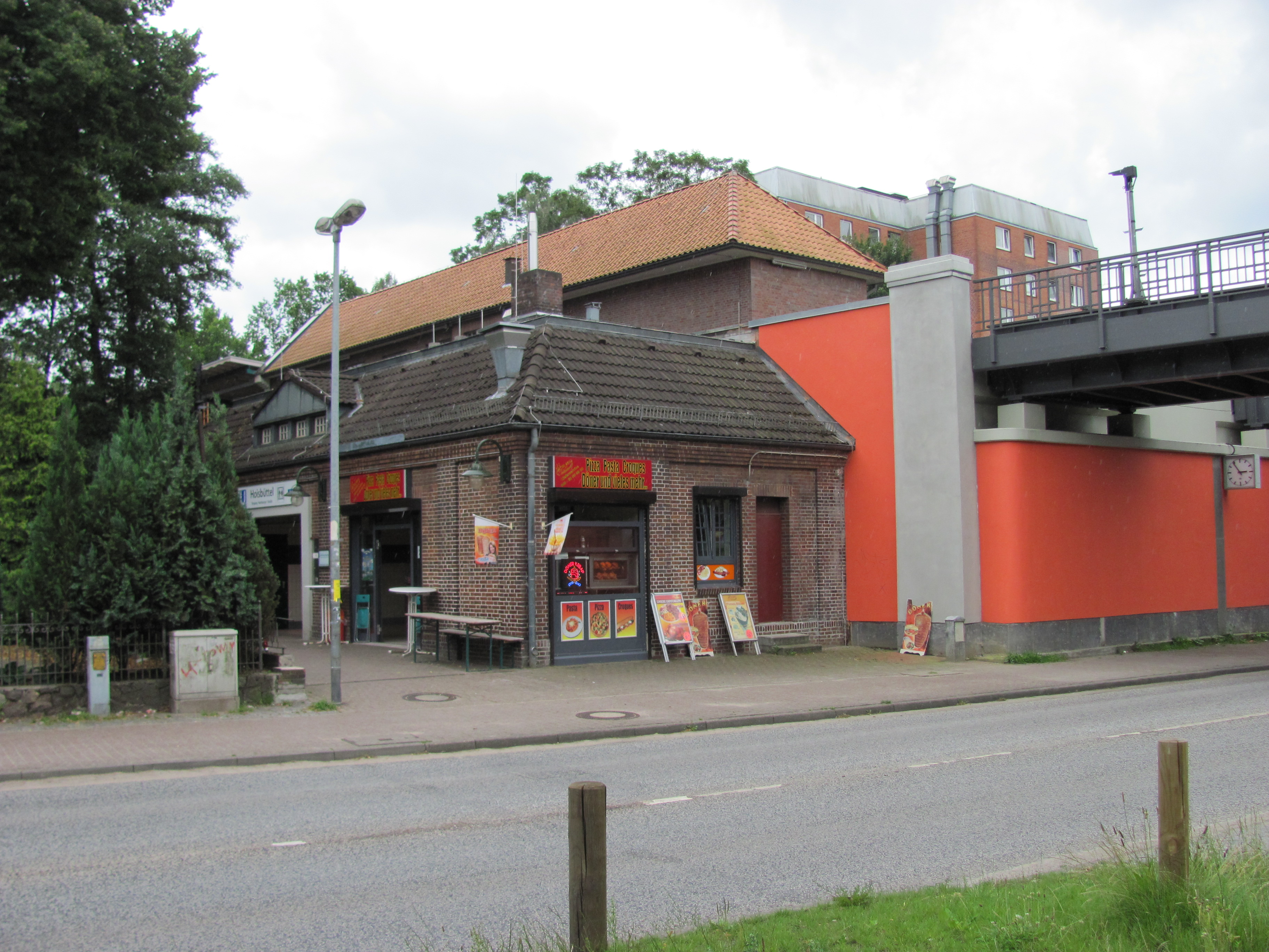 U-Bahn station Hoisbüttel in Ammersbek near Hamburg, Germany